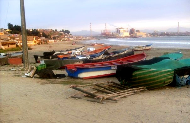 playa de Las Ventanas